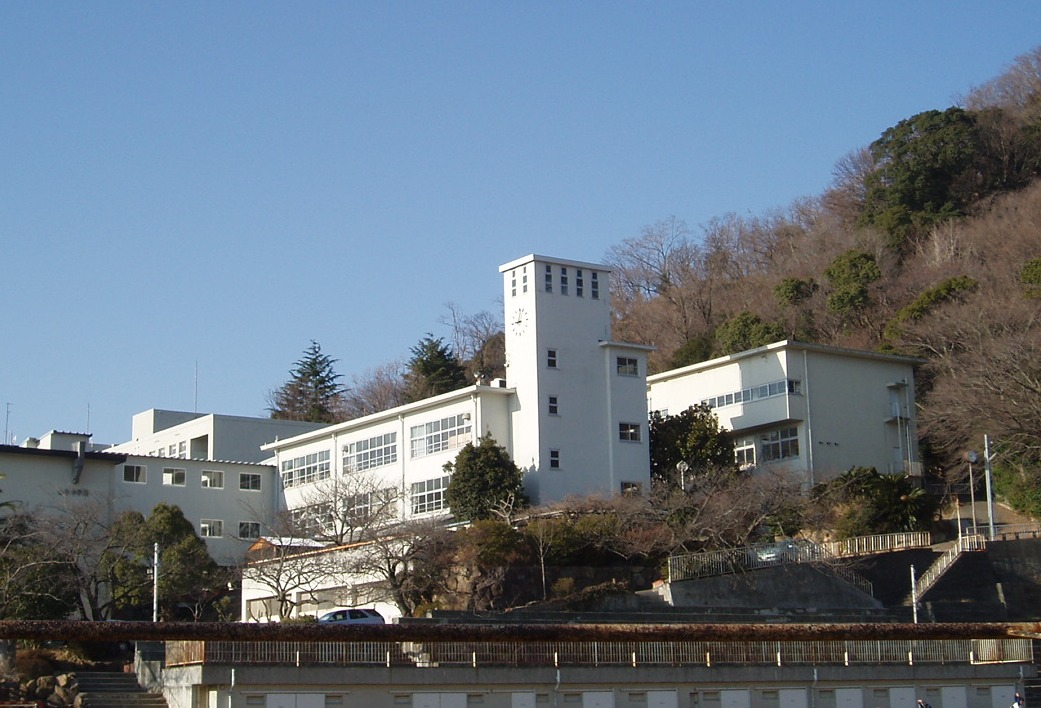 Yamate Junior High School in Ashiya, Hyogo Prefecture, Japan.